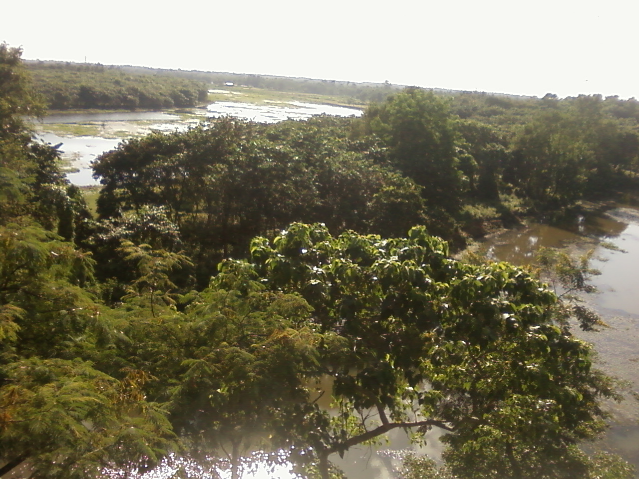 Rasikbil bird Sanctuary in Cooch Behar District